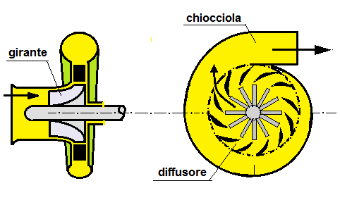 centrifugal compressor